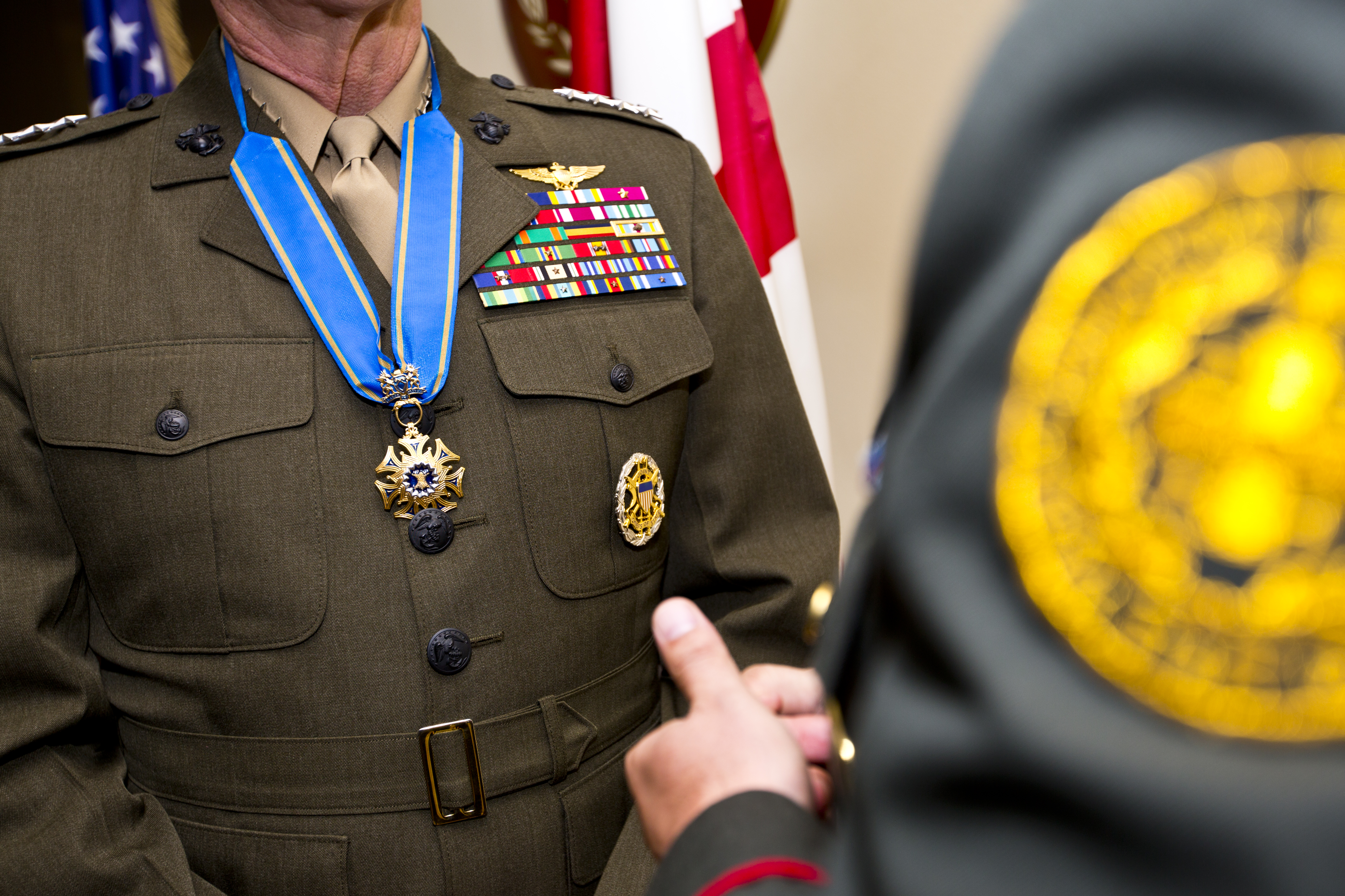 Commandant of the U.S. Marine Corps, Gen. James F. Amos, left, receives an award at Tbilisi, Georgia, Sept. 4, 2014. Amos was presented with the golden fleece award by Brig. Gen. Vladimer Chachibaia, the deputy chief of defense. (U.S. Marine Corps photo by Sgt. Gabriela Garcia/Released)